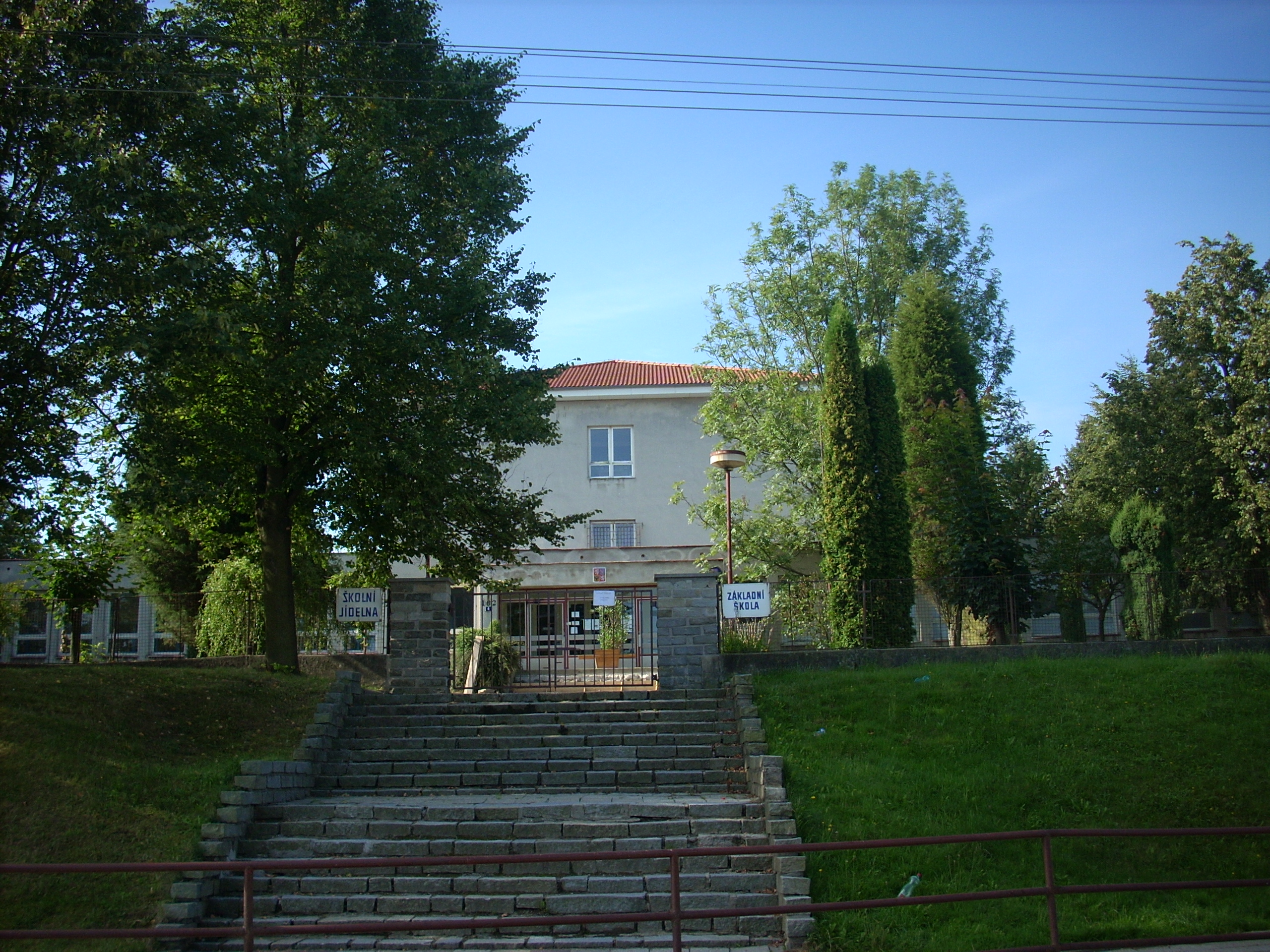 Dobronín, primary school